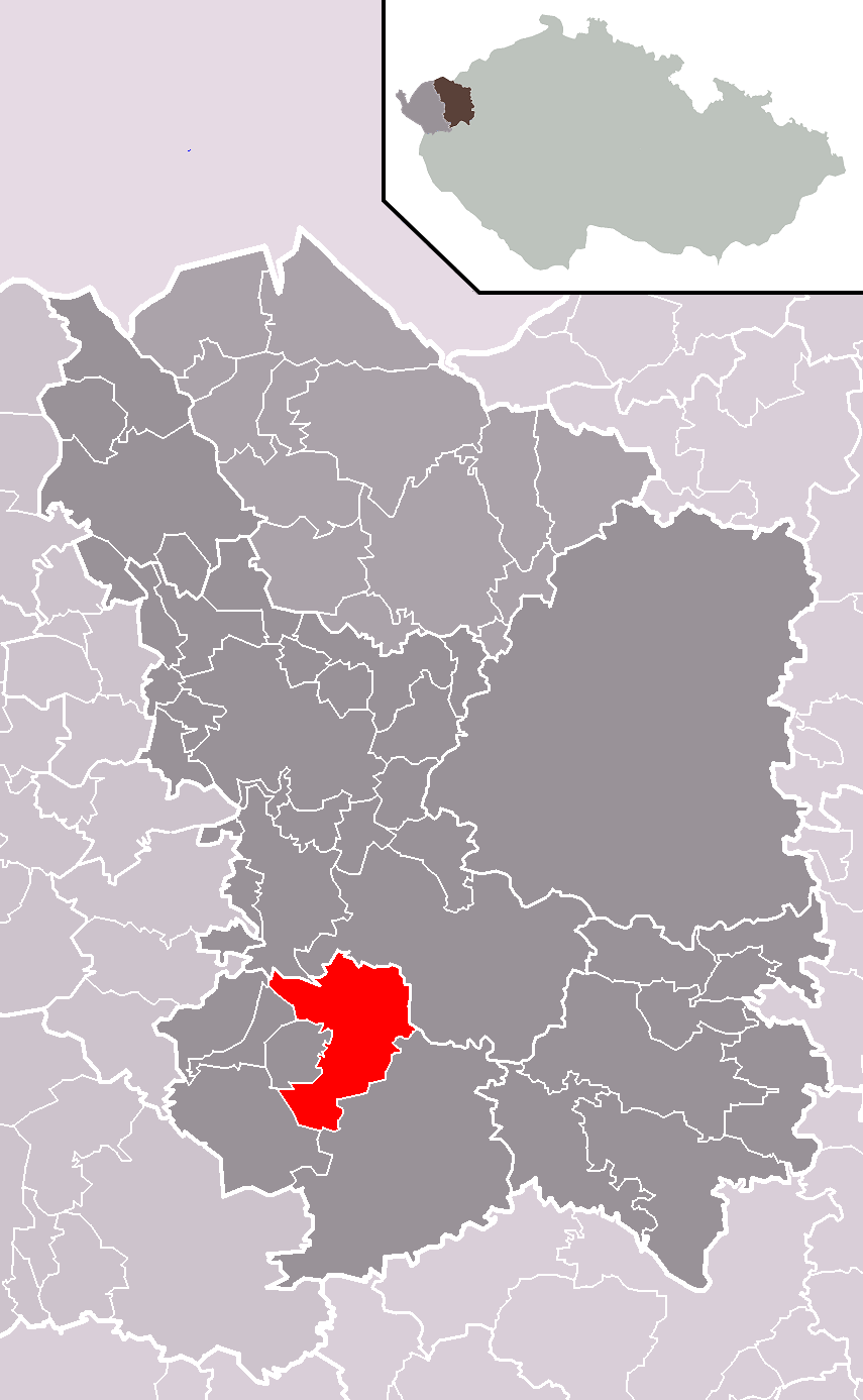 Location of Útvina municipality within Karlovy Vary District and administrative area of Karlovy Vary as a Municipality with Extended Competence.